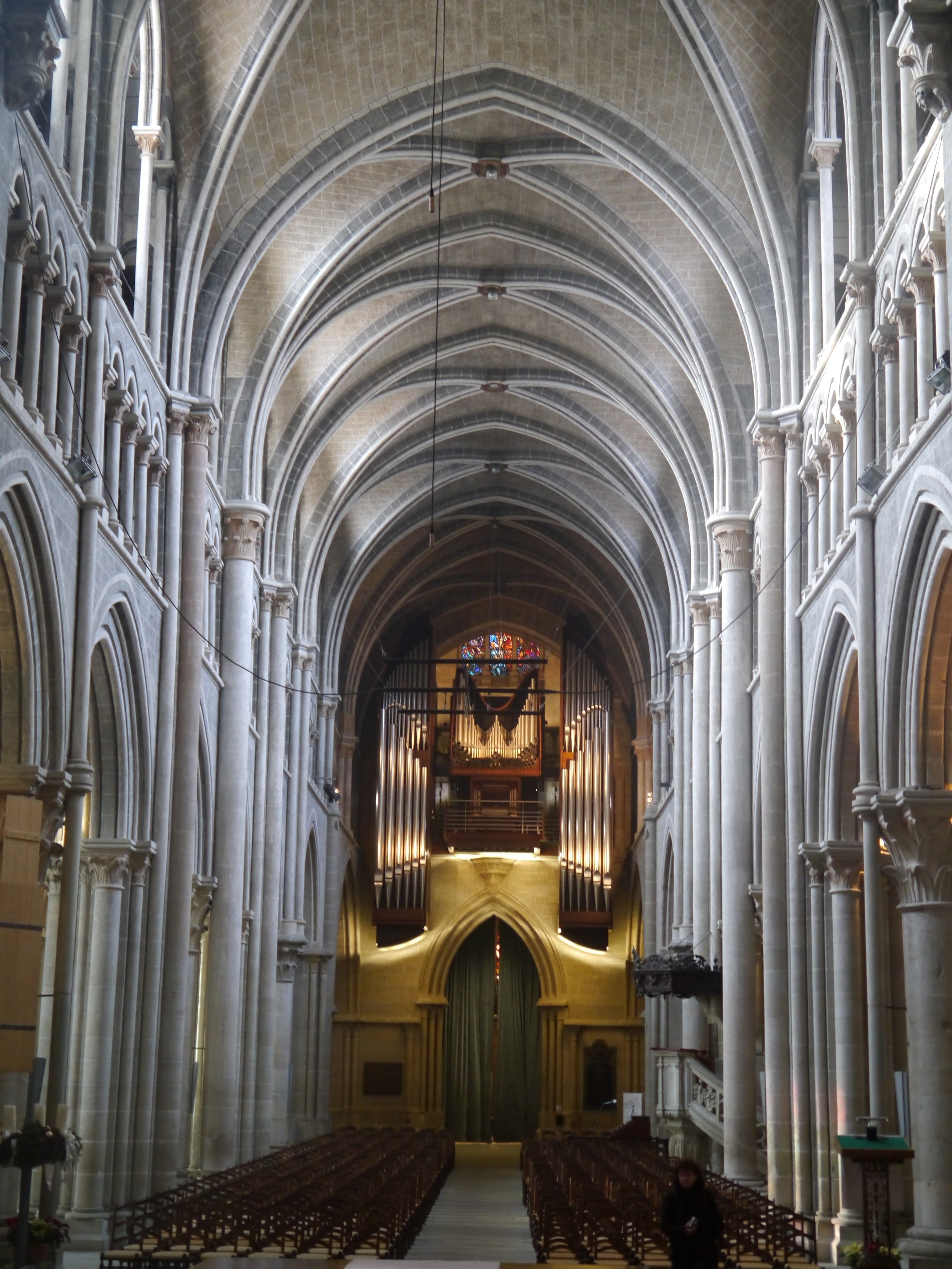 Nave of the Cathedral of Our Lady of Glarier, Lausanne, Canton of Vaud, Southwestern Switzerland